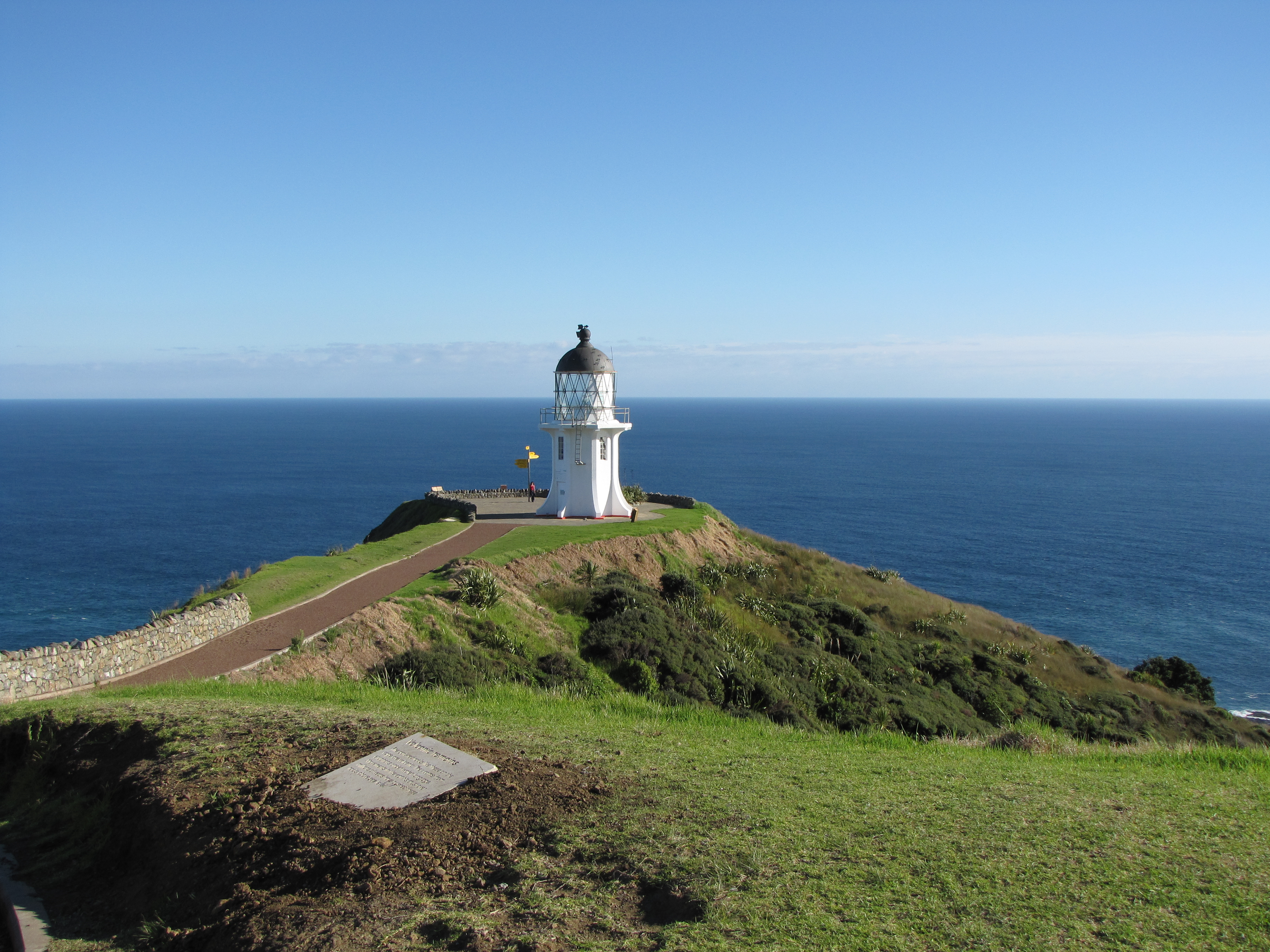 Cape Reinga lighthouse, near the northern most point of the North Island of New Zealand